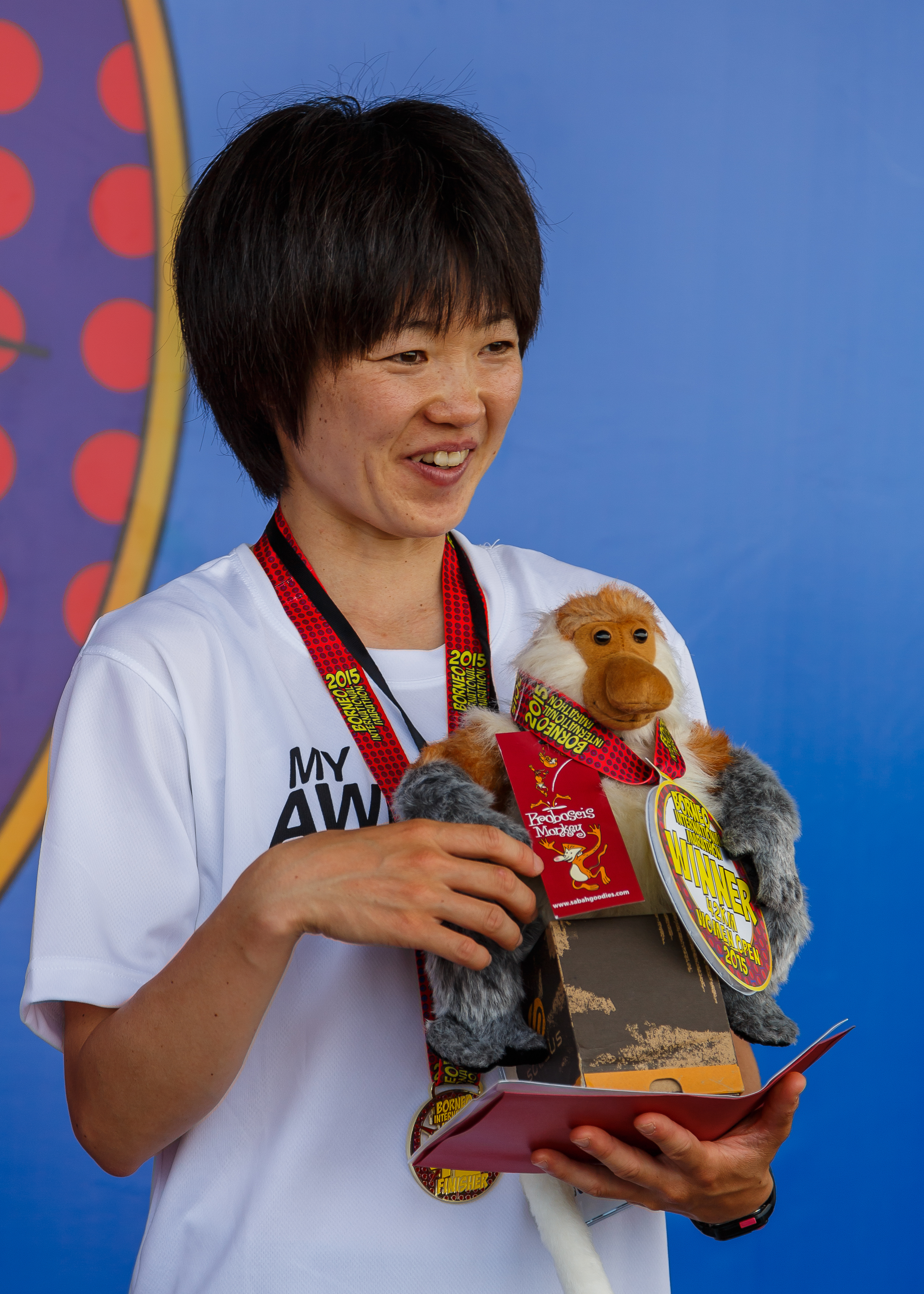 Kota Kinabalu, Sabah: Japanese athlet Azusa Nojiri, Rank #1 - 3:00:04 h; Winner of the Category "Full Marathon, Women, Open" at the Borneo International Marathon 2015 (photo taken in Likas Stadium